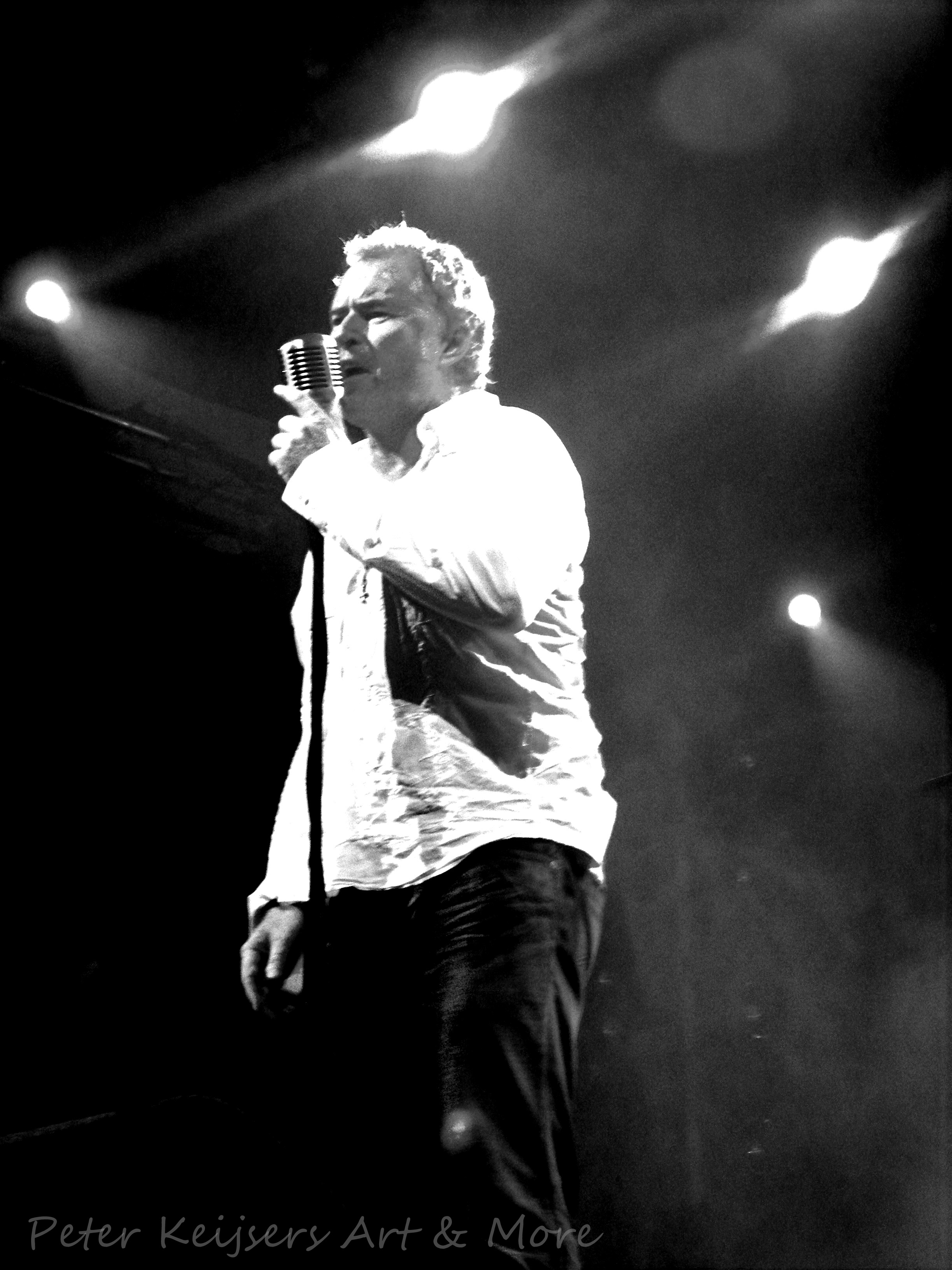 Phil Bee at Zomerparkfeest 2009